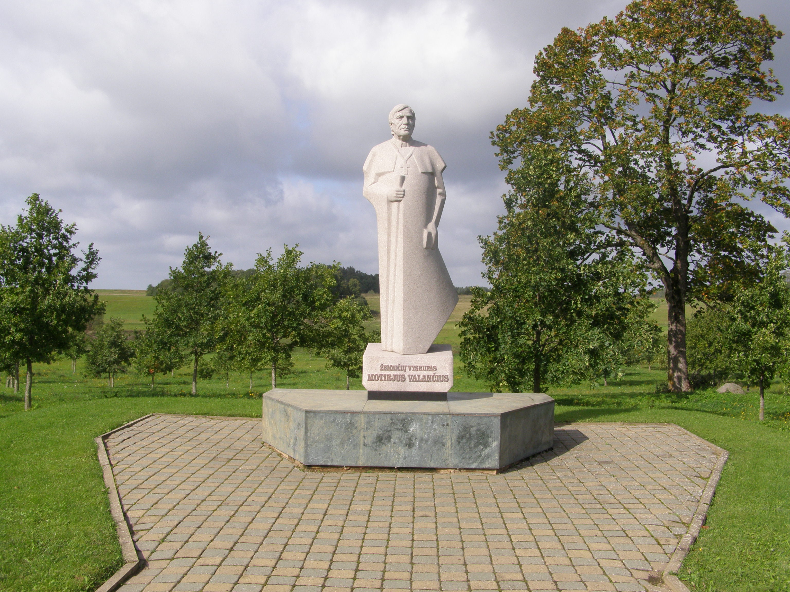 Bishop Motiejus Valančius monument, Nasrėnai, Kretinga district, Lithuania